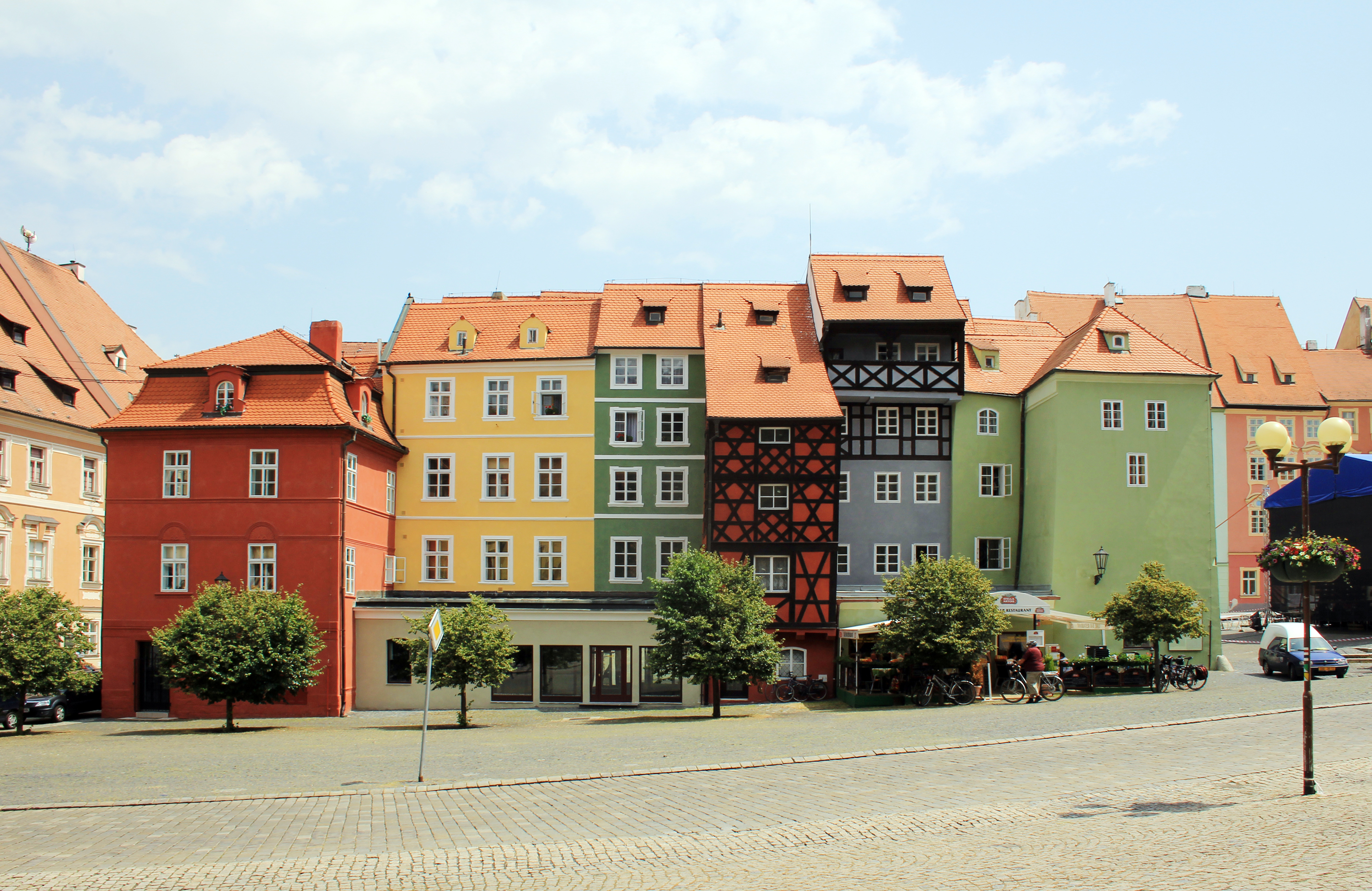 The market square wit "Špalíček" in Cheb, Czech Republic